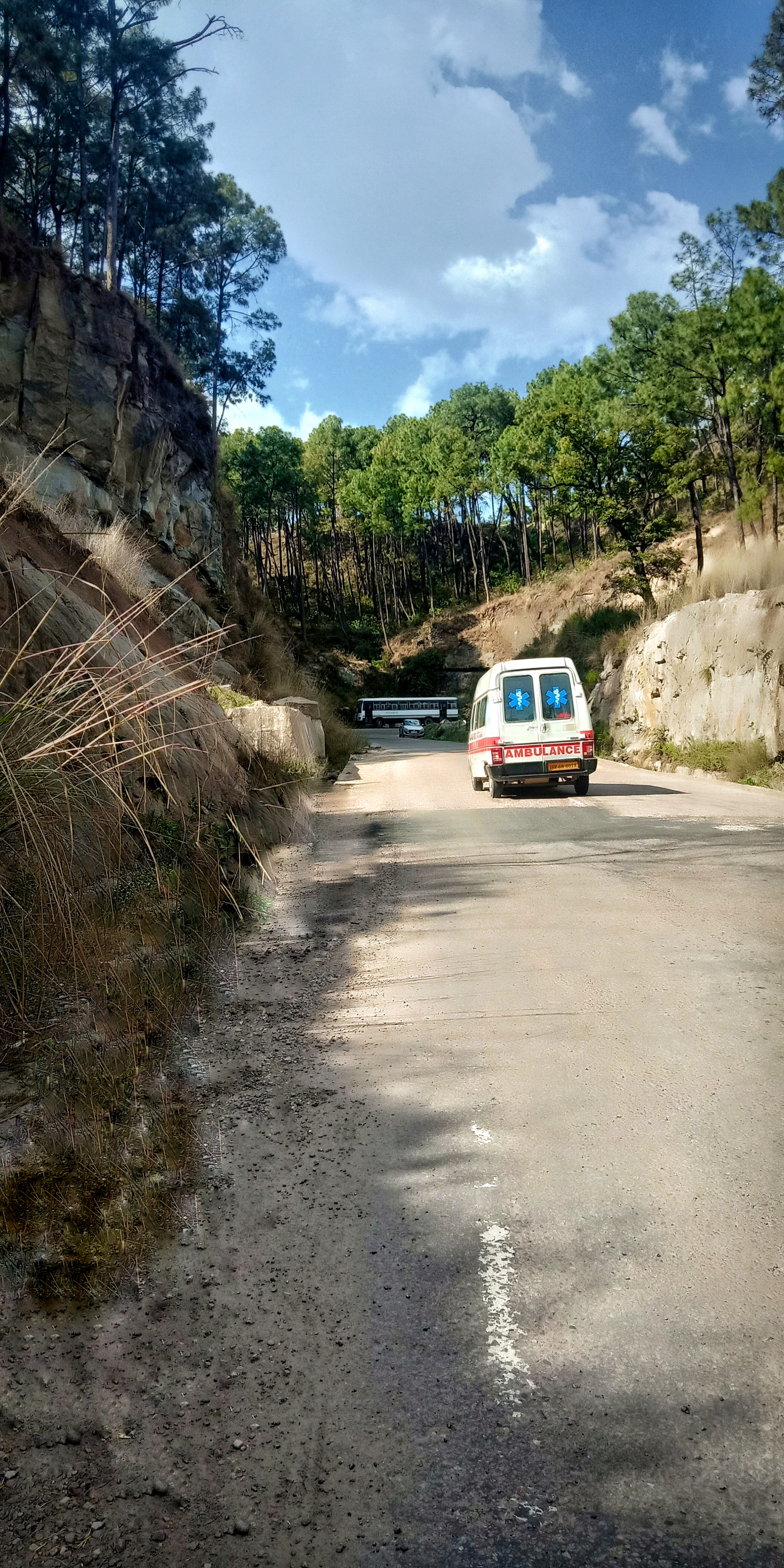 By-Pass Road Hamirpur, Himachal Pradesh